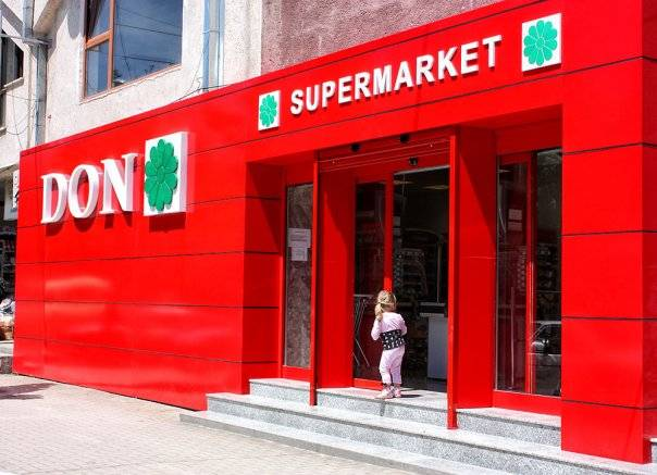 Don Super Market in Struga